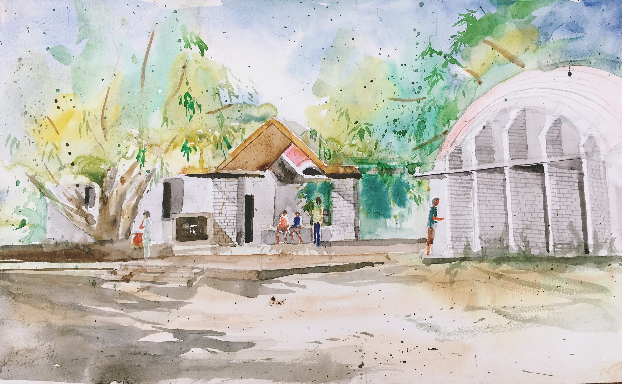 Lvvv - A Painting by Shyam